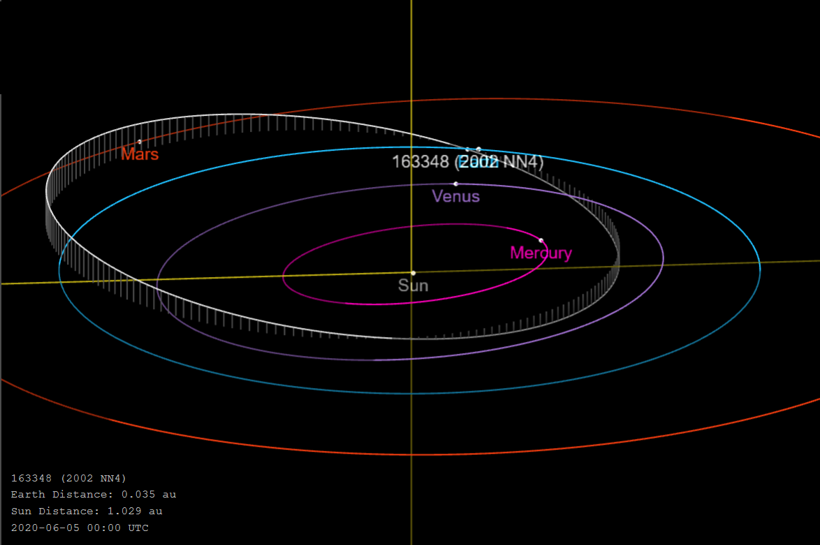 orbit of (163348) 2002 NN4